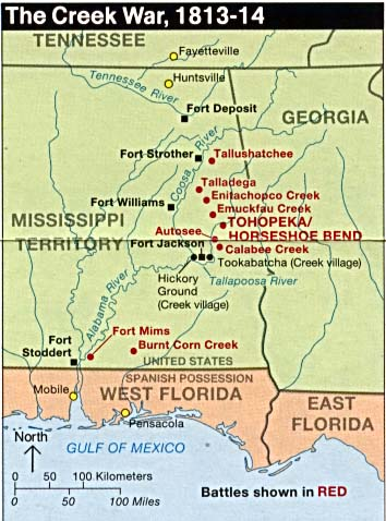 Map of sites of the Creek War originally listed at